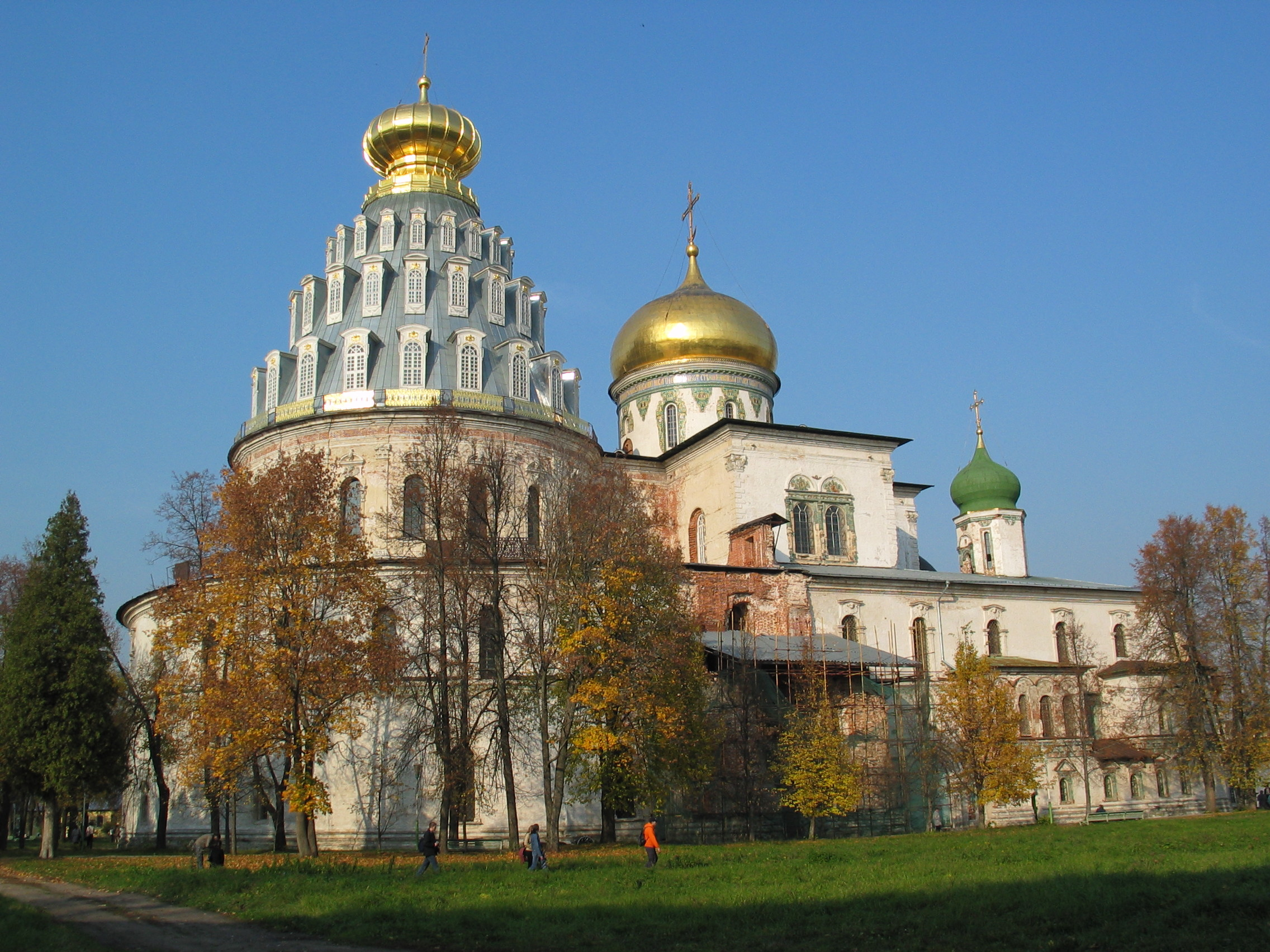 New Jerusalem Cathedral / Moscow region, Russia